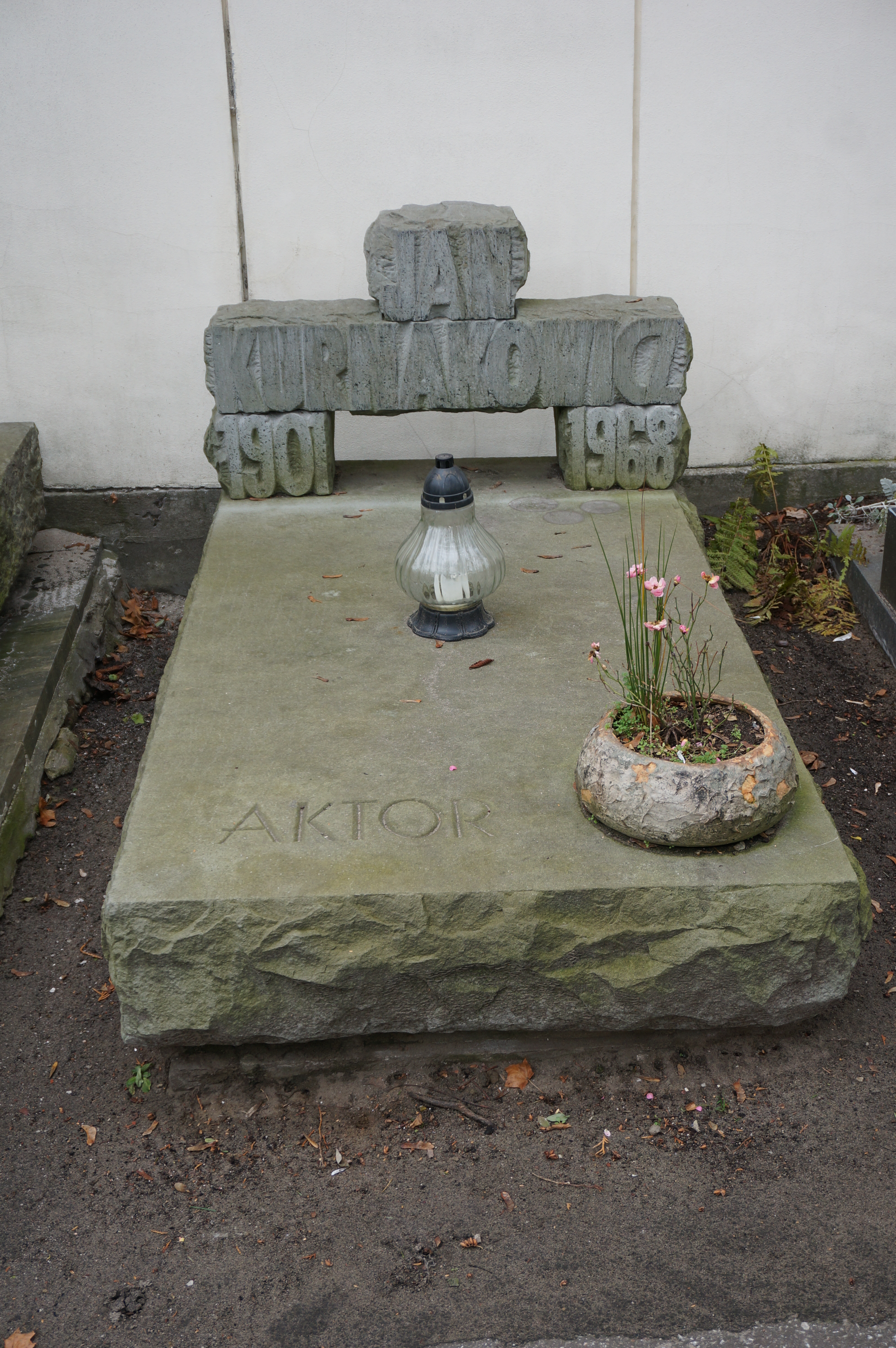 The grave of Jan Kurnakowicz at the Powązki Cemetery (Avenue of Deserved, grave 155)